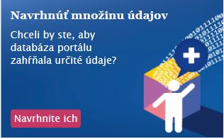 Screenshot from EUODP